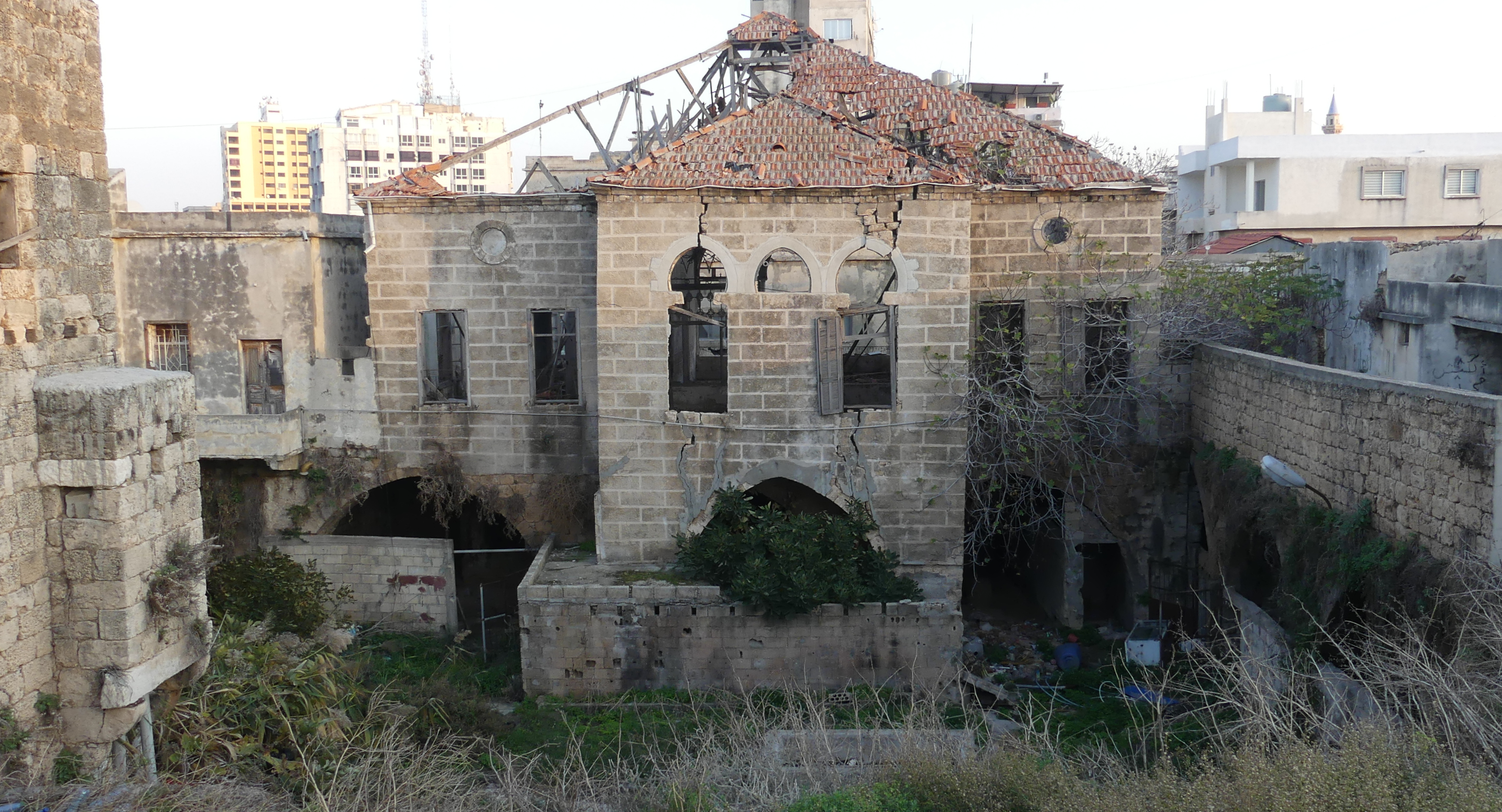 The ruins of Khan Rabu (also spelled Rabou or Ribbu) in Tyre/Sour, Southern Lebanon: a Caravanserai built in 1810 in the marketplace area during Ottoman rule. View from across the inner courtyard.